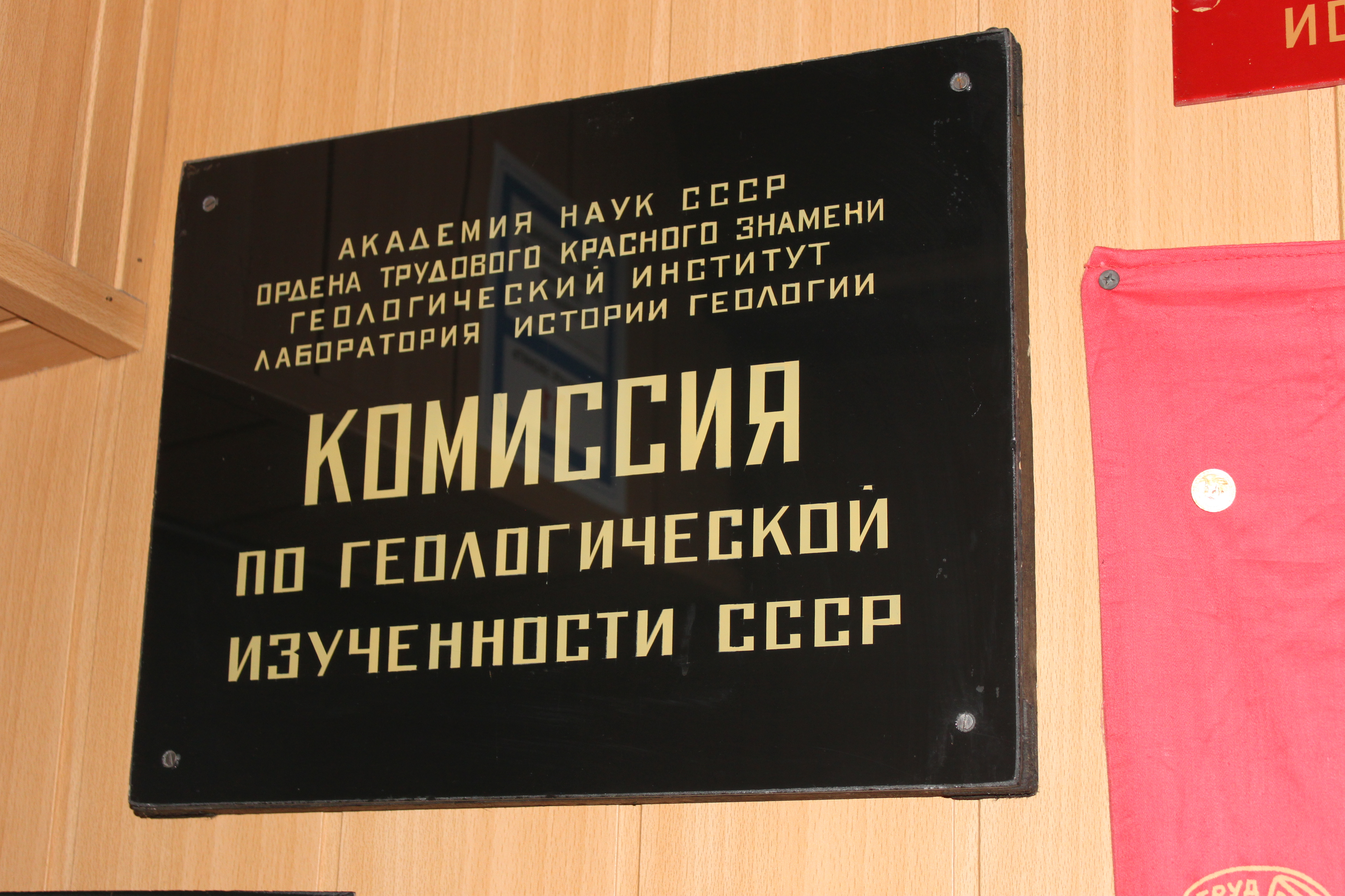 Wikitrip to Geography Institute RAS 2019-12-19.